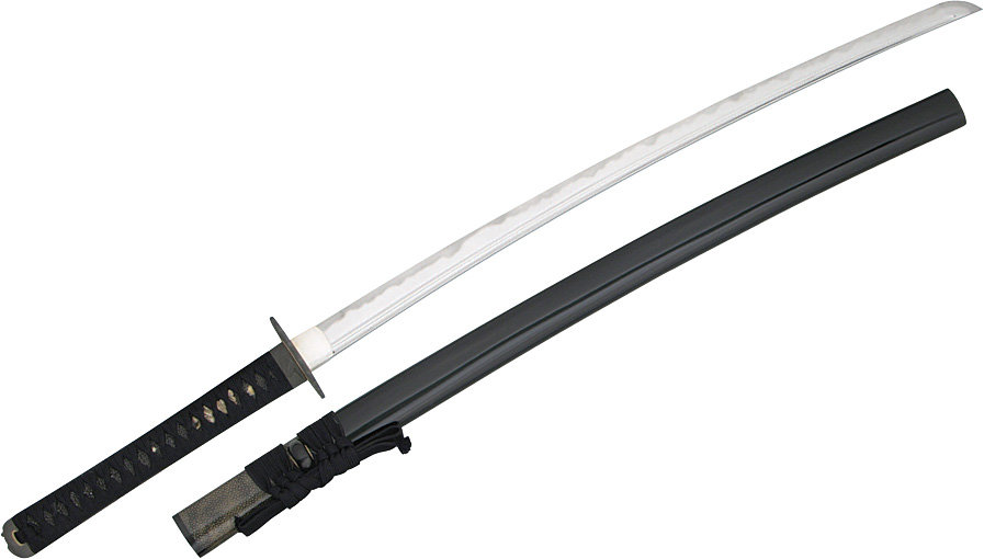 Tsuru Iaito